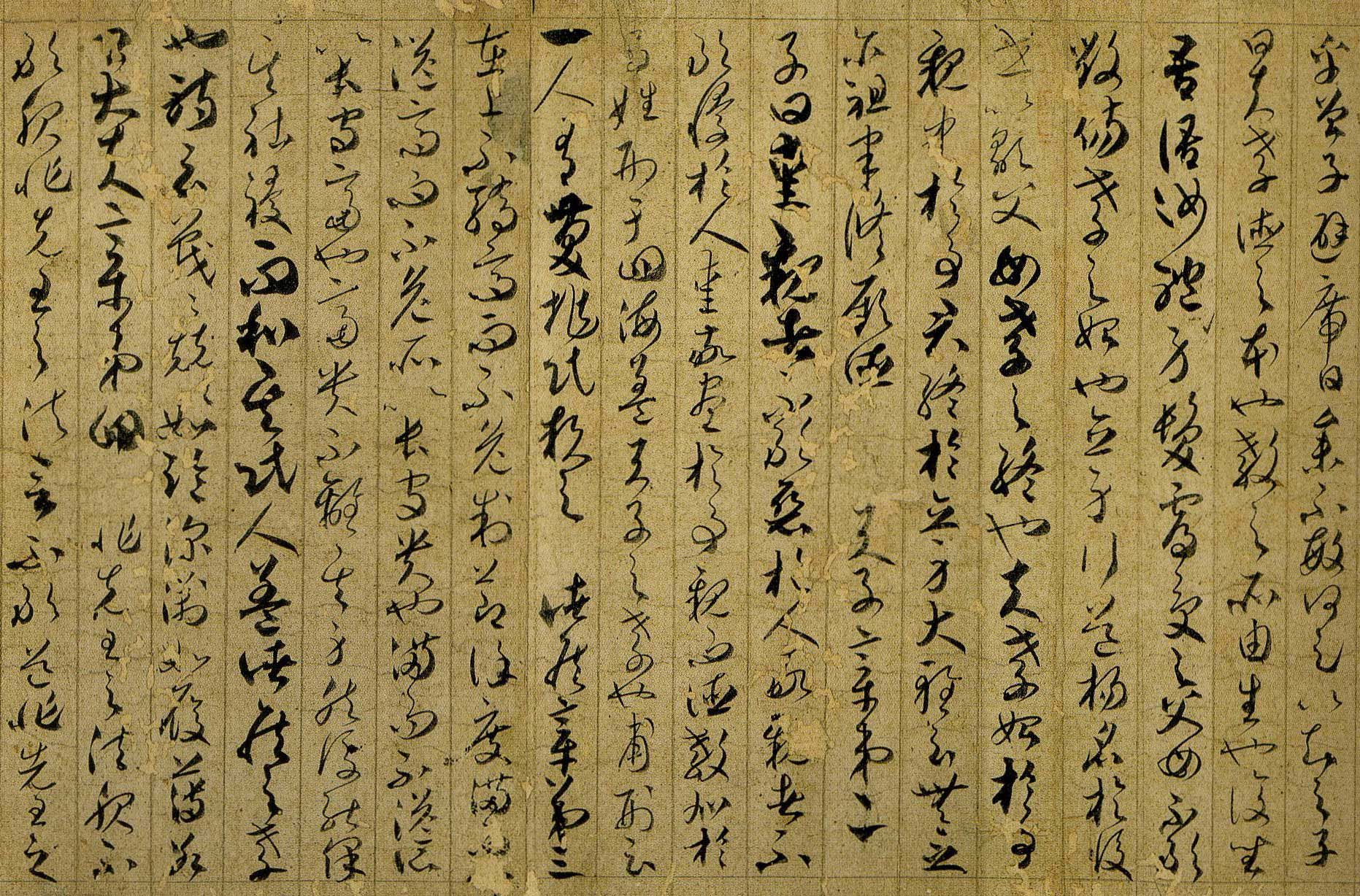 calligraphy work by He Zhizhang,Chinese famous poet of Tang Dynasty